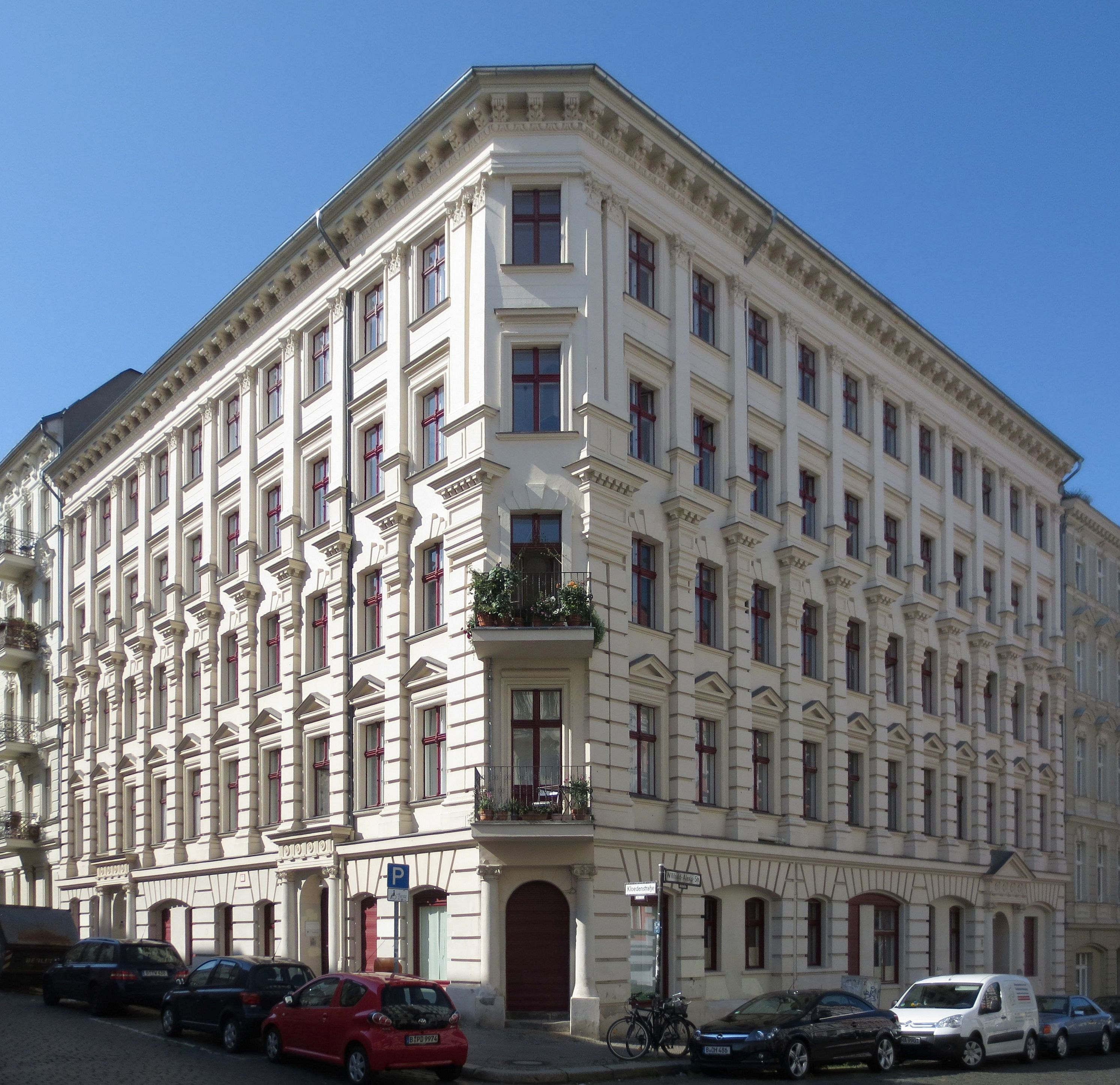 Residential building Kloedenstraße No. 1-1A, corner of Willibald-Alexis-Straße No. 30 (on the right), in Berlin-Kreuzberg. The house was built in 1890 by Hugo E. Hintz. It is part of the protected historic buildings area Chamissoplatz.